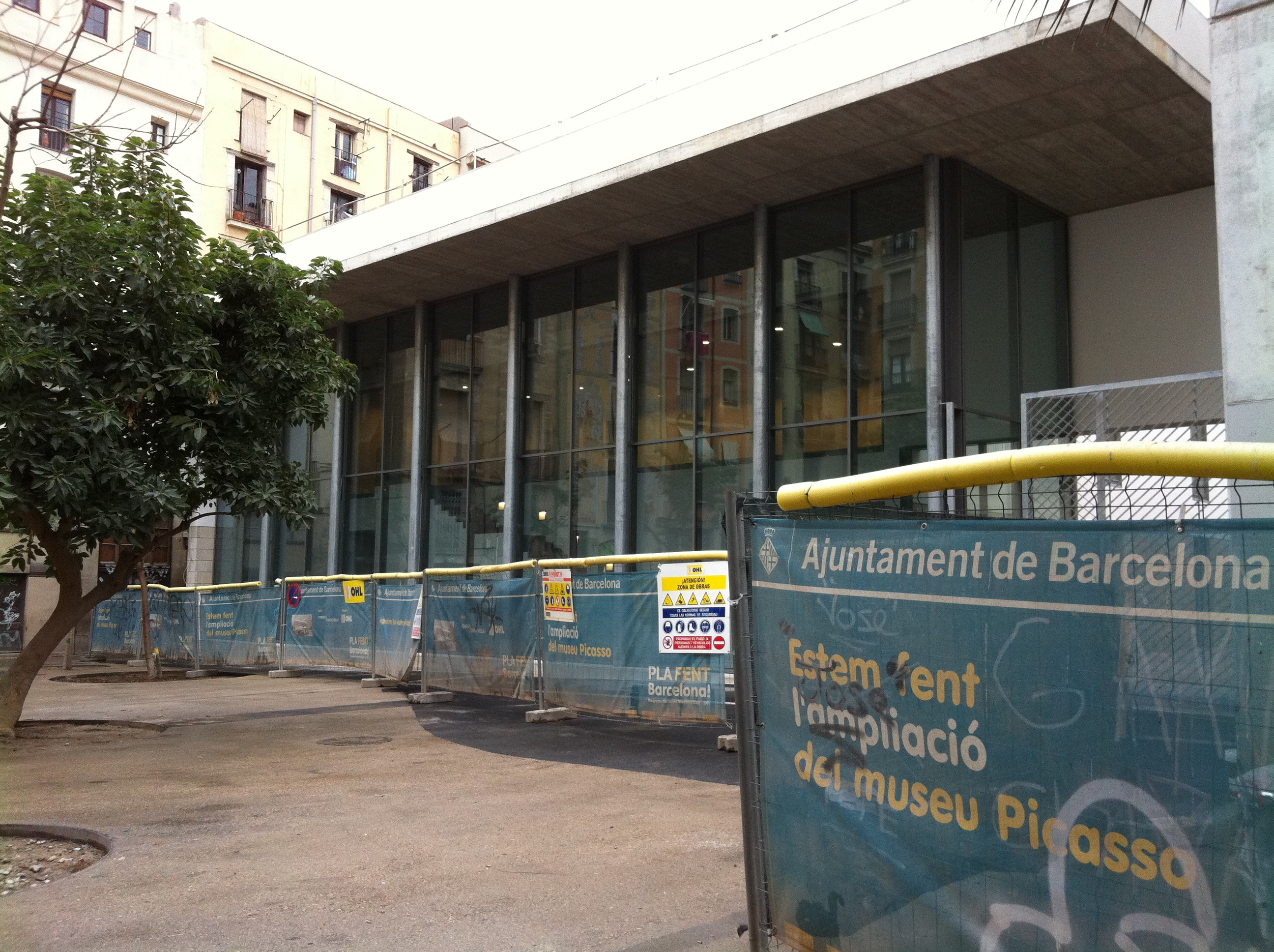 Building process of Centre of Research of Museu Picasso in Barcelona